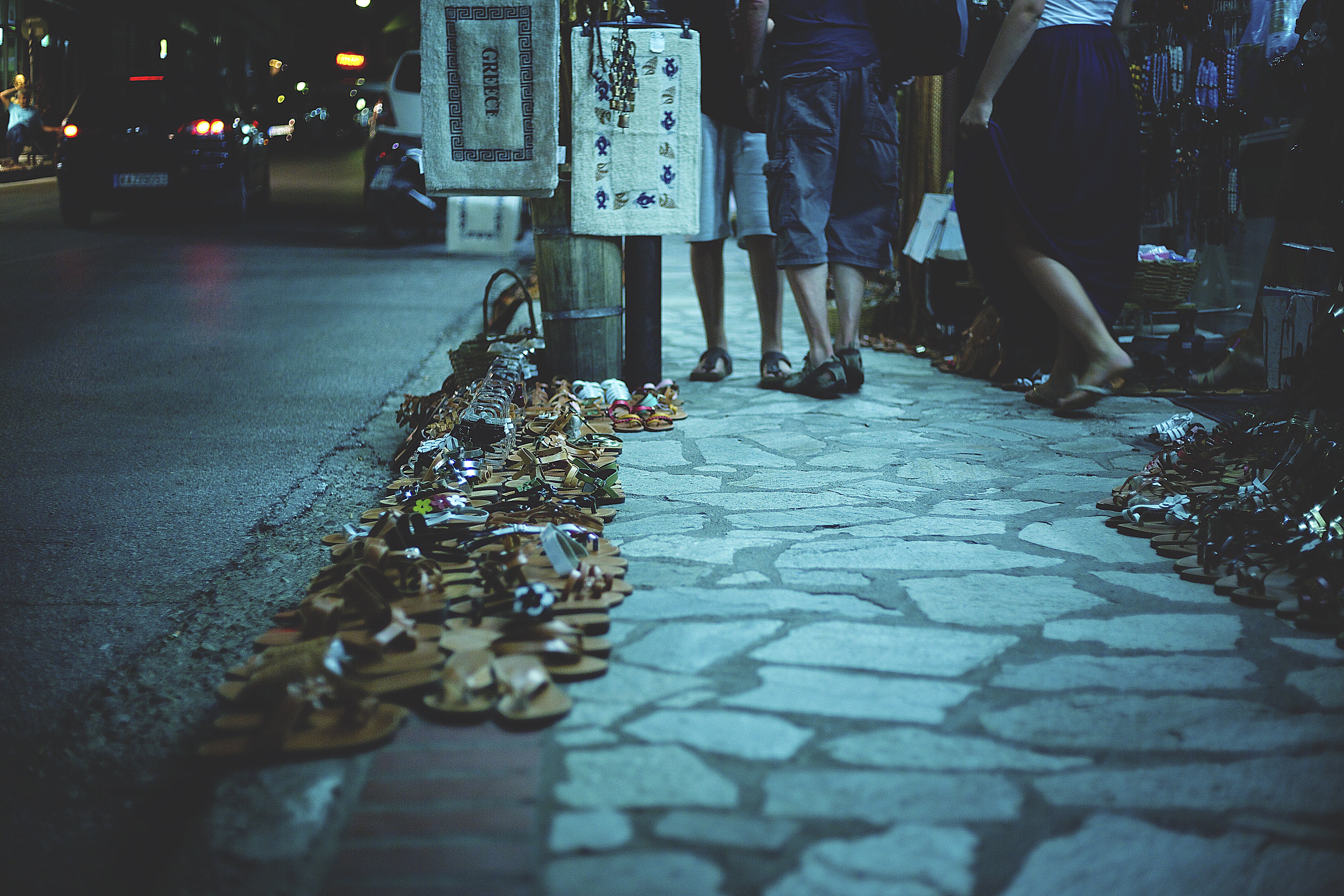 Souvenirs and handmade leather goods sold on the street in Kalambaka, Greece.